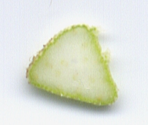 Cyperus rotundus (nut-grass or purple nut-sedge) - flower stem cross section. Scanned on an Epson Perfection 1260 scanner at 1200 dpi, then sharpened using photo editing software.